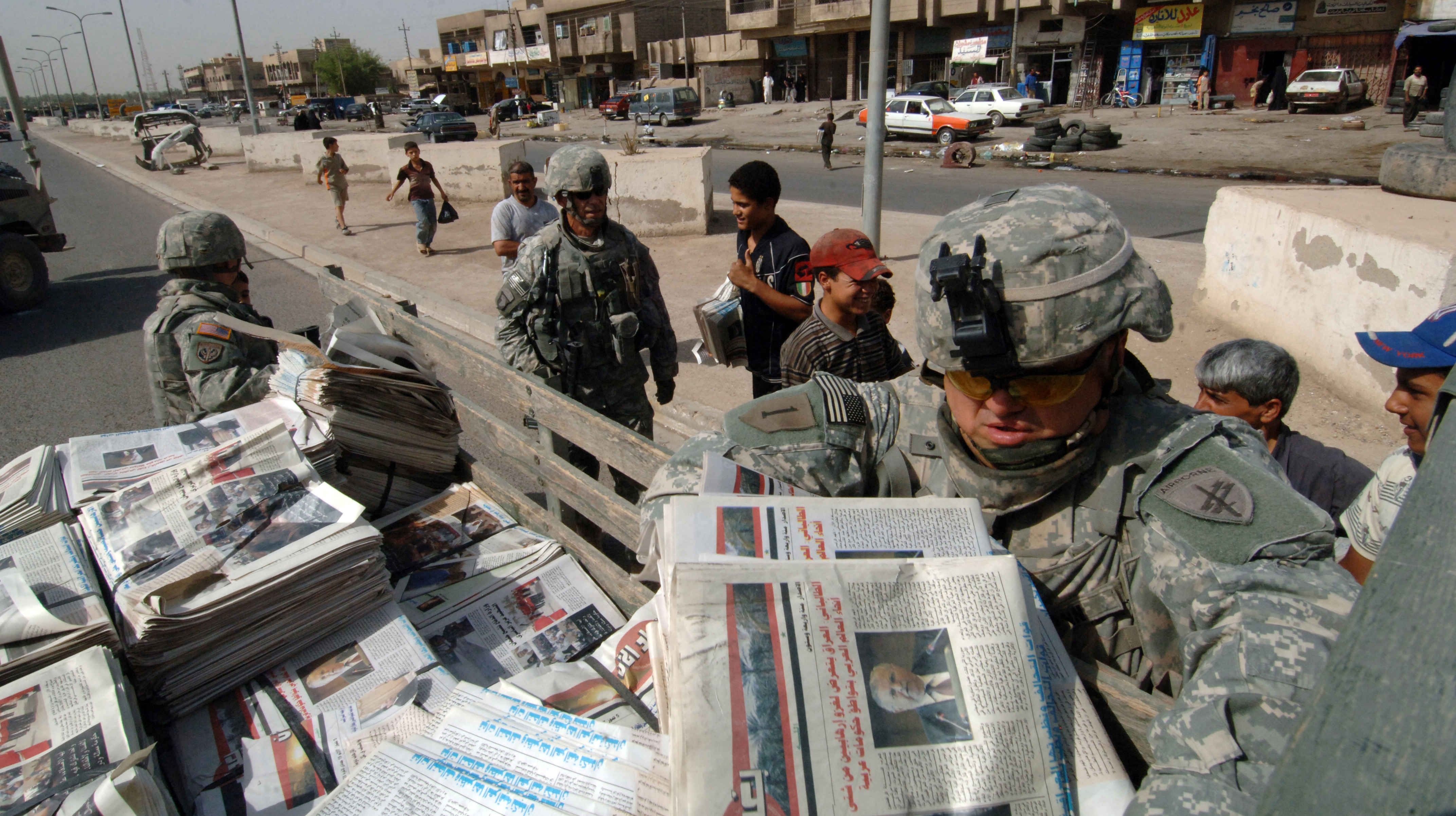 U.S. Army Soldiers with Detachment 1080, 318th Psychological Operations Company distribute "Baghdad Now" in the East Rashid region of Baghdad, Iraq, July 11, 2007. The periodical, which is put together by the 318th Psyop Co., has articles that discuss all manners of news from informing the public on global news as well as local issues, helping to legitimize the Iraqi forces that work with the United States, and any information regarding the security of the region. (U.S. Navy photo by Mass Communication Specialist David Quillen) (Released) (Released to Public)